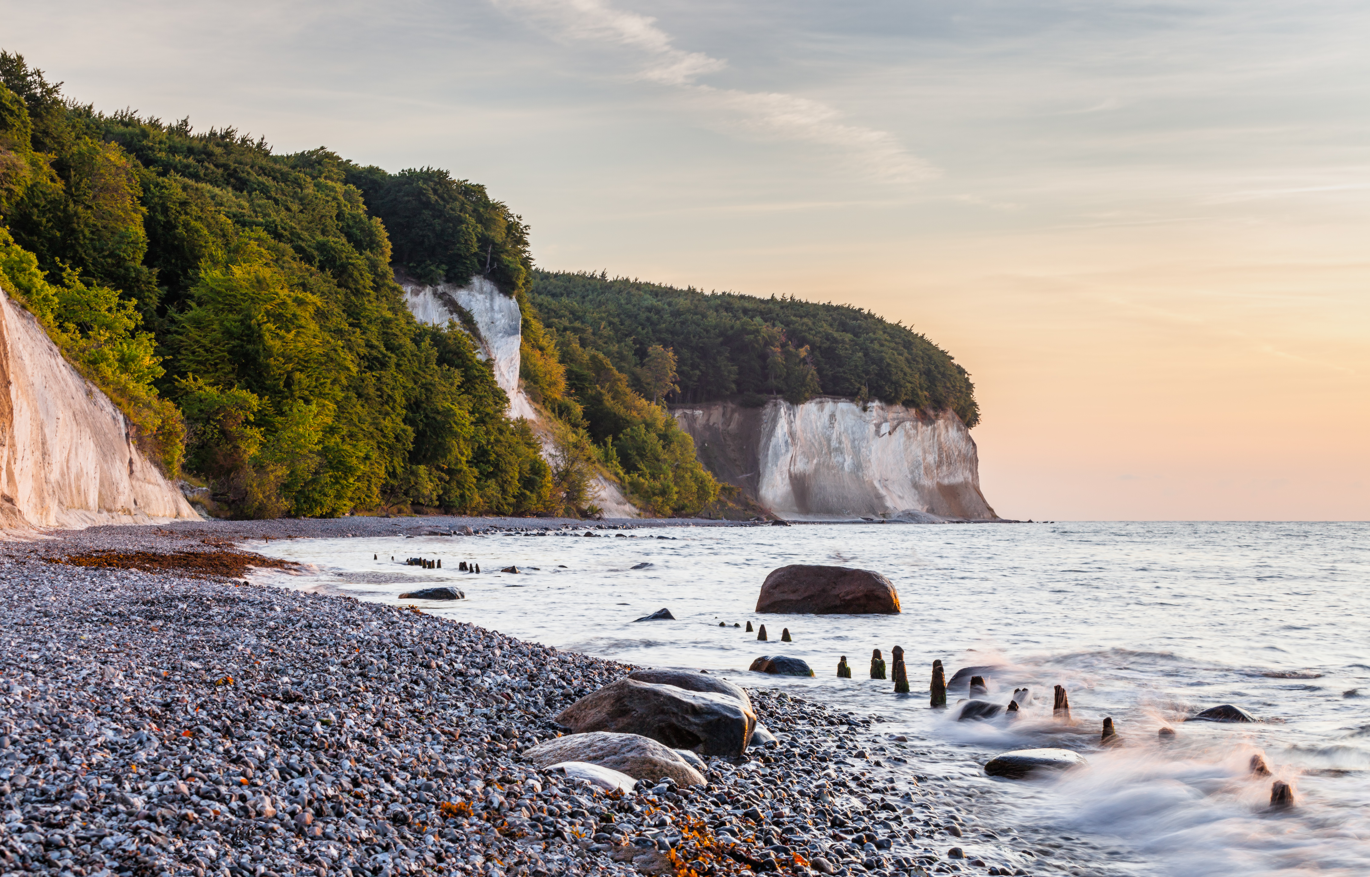 The sunrise in Jasmund national park, Rügen island in Mecklenburg-Vorpommern, Germany.